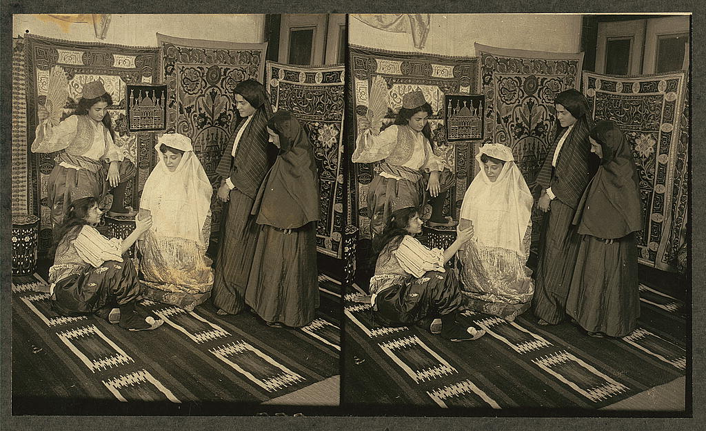 Turkish bride in her wedding dress. Four attendants gather around bride in room with carpet and wall hangings.